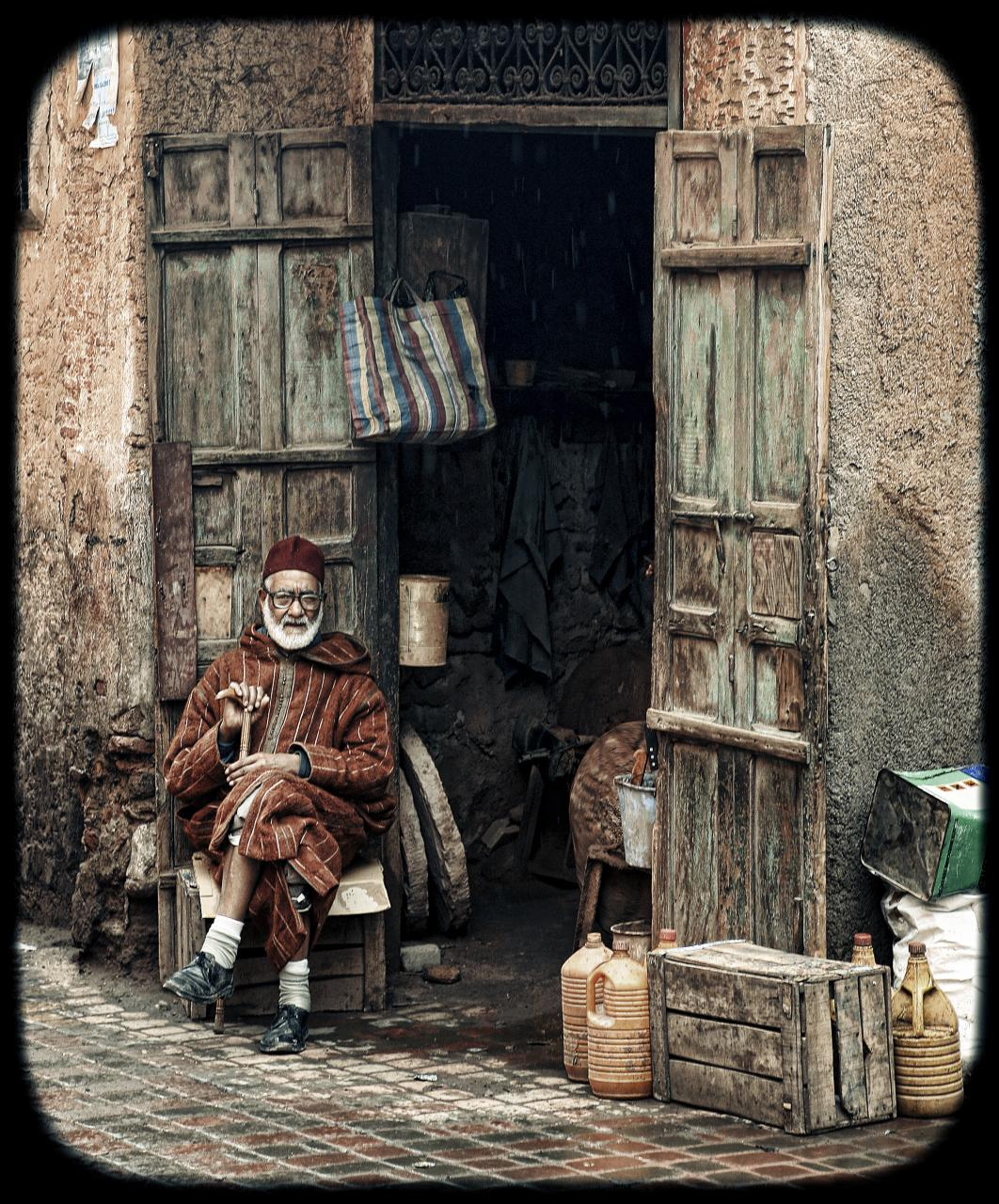 It felt as if one’s entire world was one, long Sunday afternoon. Nothing to do. Nowhere to go. --Ralph Gibson